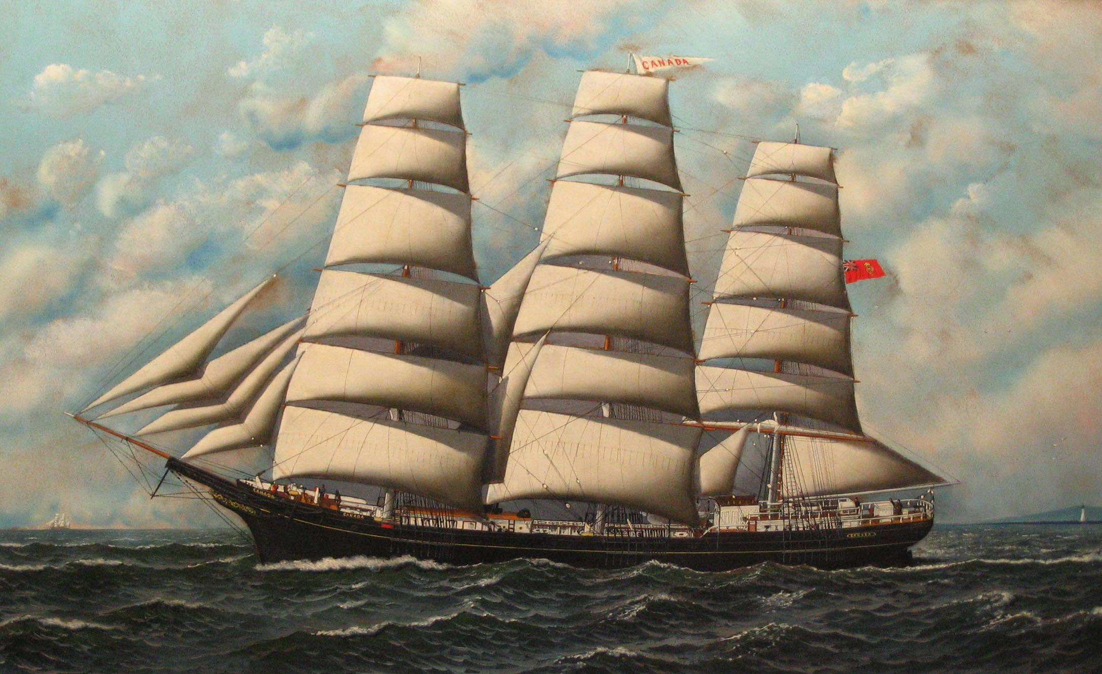 Portrait of the full-rigged ship Canada, built 1891, painted by Antonio Jacobsen. Portrait is undated but is circa 1895. Portrait is part of the collection of the Maritime Museum of the Atlantic, Halifax, Nova Scotia, accession number M96.43.369